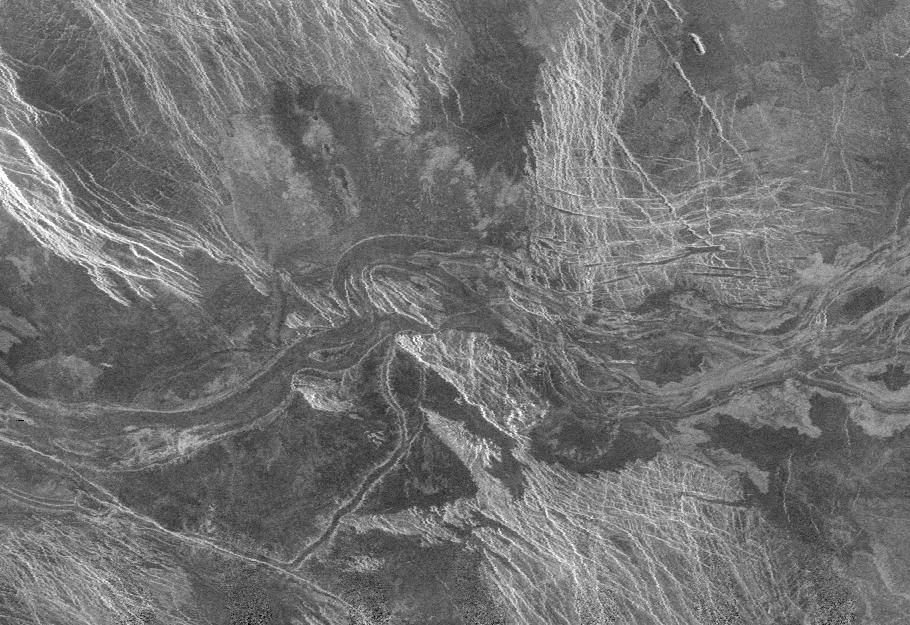 This is a Magellan radar image mosaic of part of Venus, centered at 51 degrees south latitude, 21 degrees east longitude. Each pixel, or picture element, represents 225 meters. The scene is approximately 200 kilometers (124 miles) east to west by 160 kilometers (99 miles) north to south. Running from west to east across the center of the image is part of a 1,200 kilometer (744 miles) long by 20 kilometer (12 mile) wide lava channel in the Lada Terra region of Venus. Numerous streamlined structures within the channel attest to the very high temperature, very fluid lavas (resulting in both thermal and mechanical erosion) responsible for carving the channel.